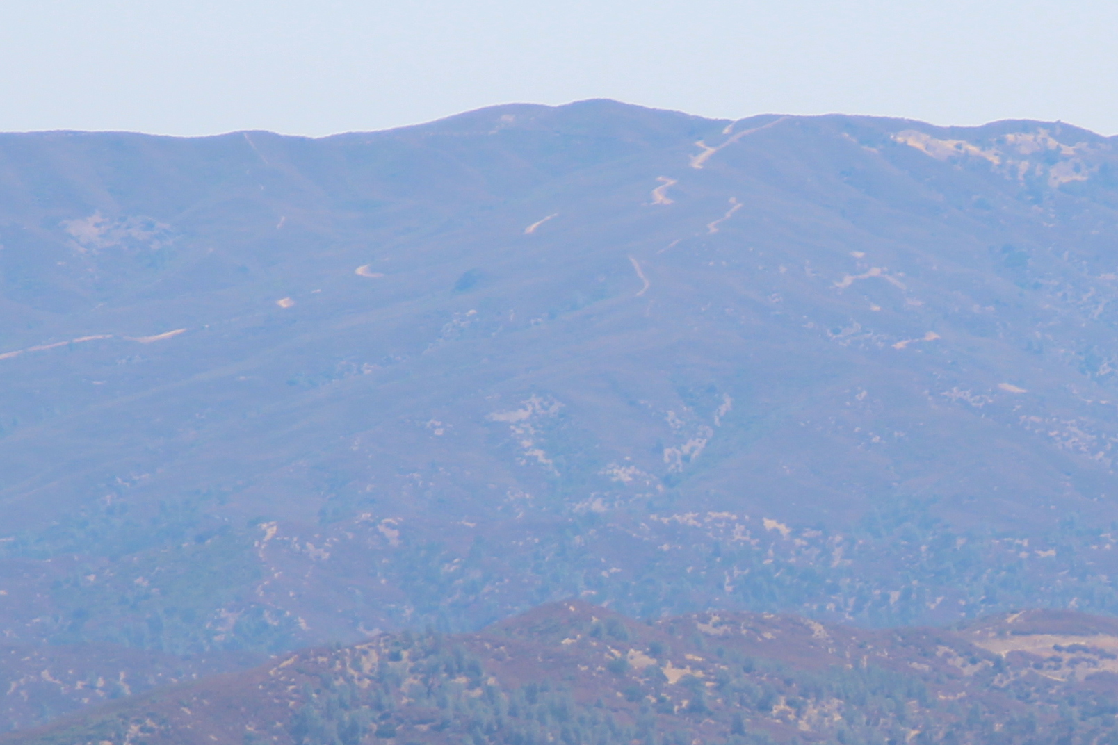 Mt Hamilton view looking east